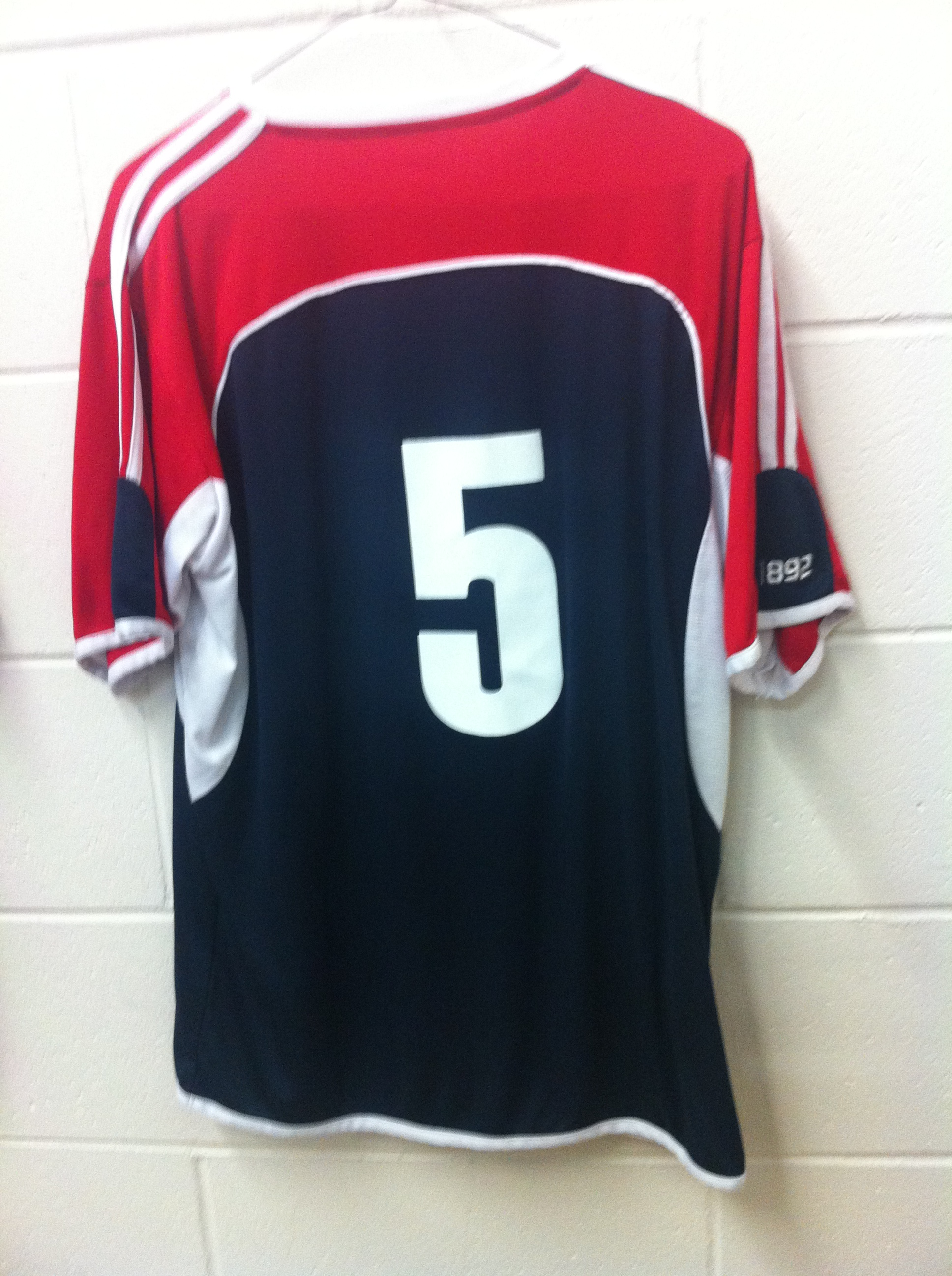 Aaron Hooper Kingston FC Jersey #5